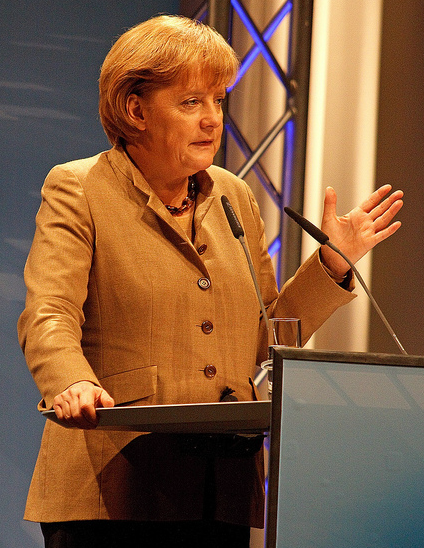 Angela Merkel in Unna (27.03.2010).